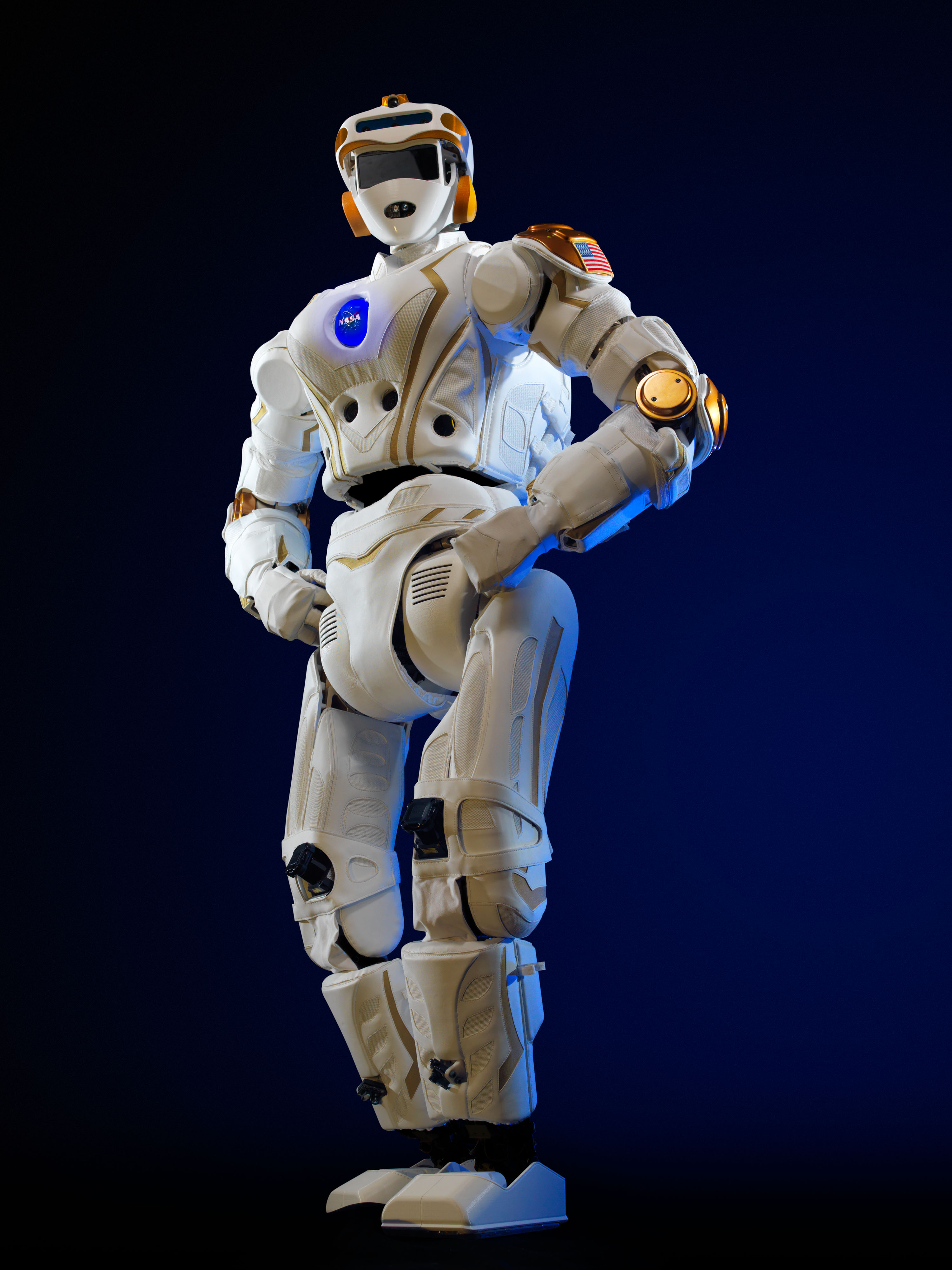 NASA's R5 robot, nicknamed Valkyrie, is NASA's newest humanoid robot and was built to compete in the DARPA Robotics Challenge and advance the state of the art of robotics within the agency. Location: Bldg. 32B - Valkyrie Lab